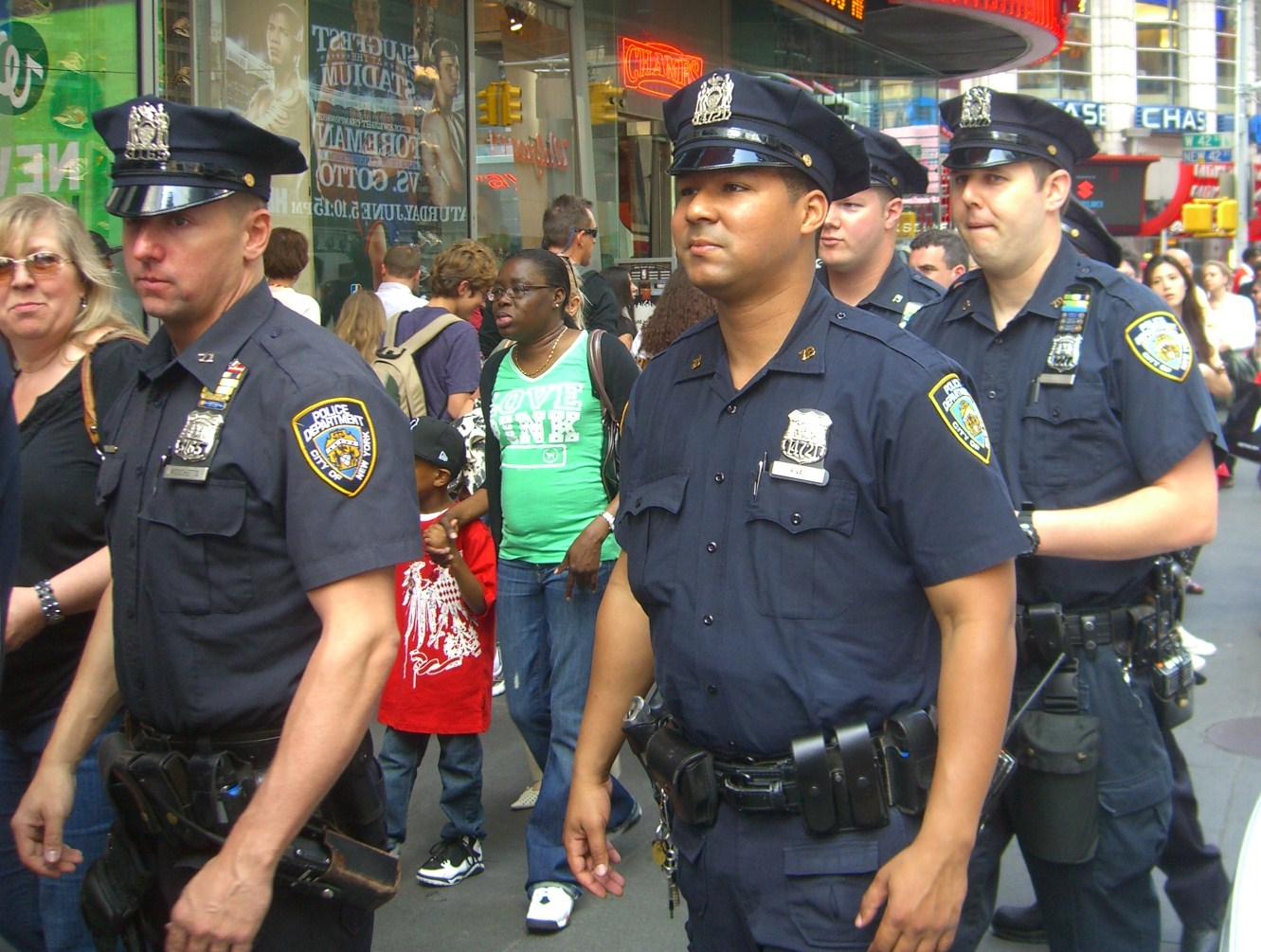 New York City Police officers in Times Square, May 29, 2010. This photo was created by Luigi Novi. It is not in the public domain, and use of this file outside of the licensing terms is a copyright violation.